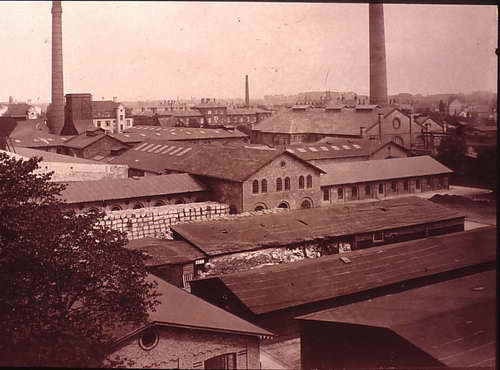 Frederiksberg Paper Factory in 1909. Demolished 1975.